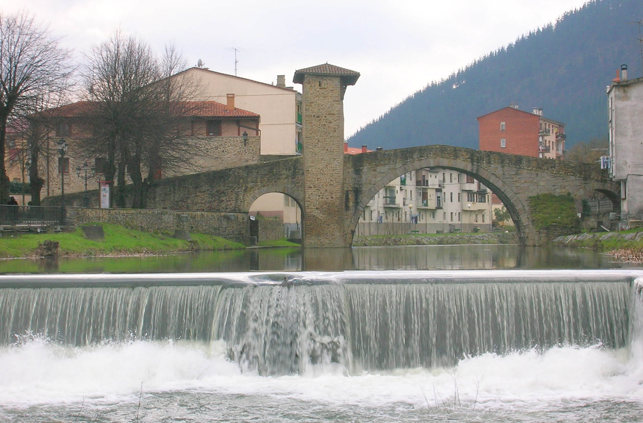 Old bridge of Balmaseda-Valmaseda, over river Cadagua, in Biscay.